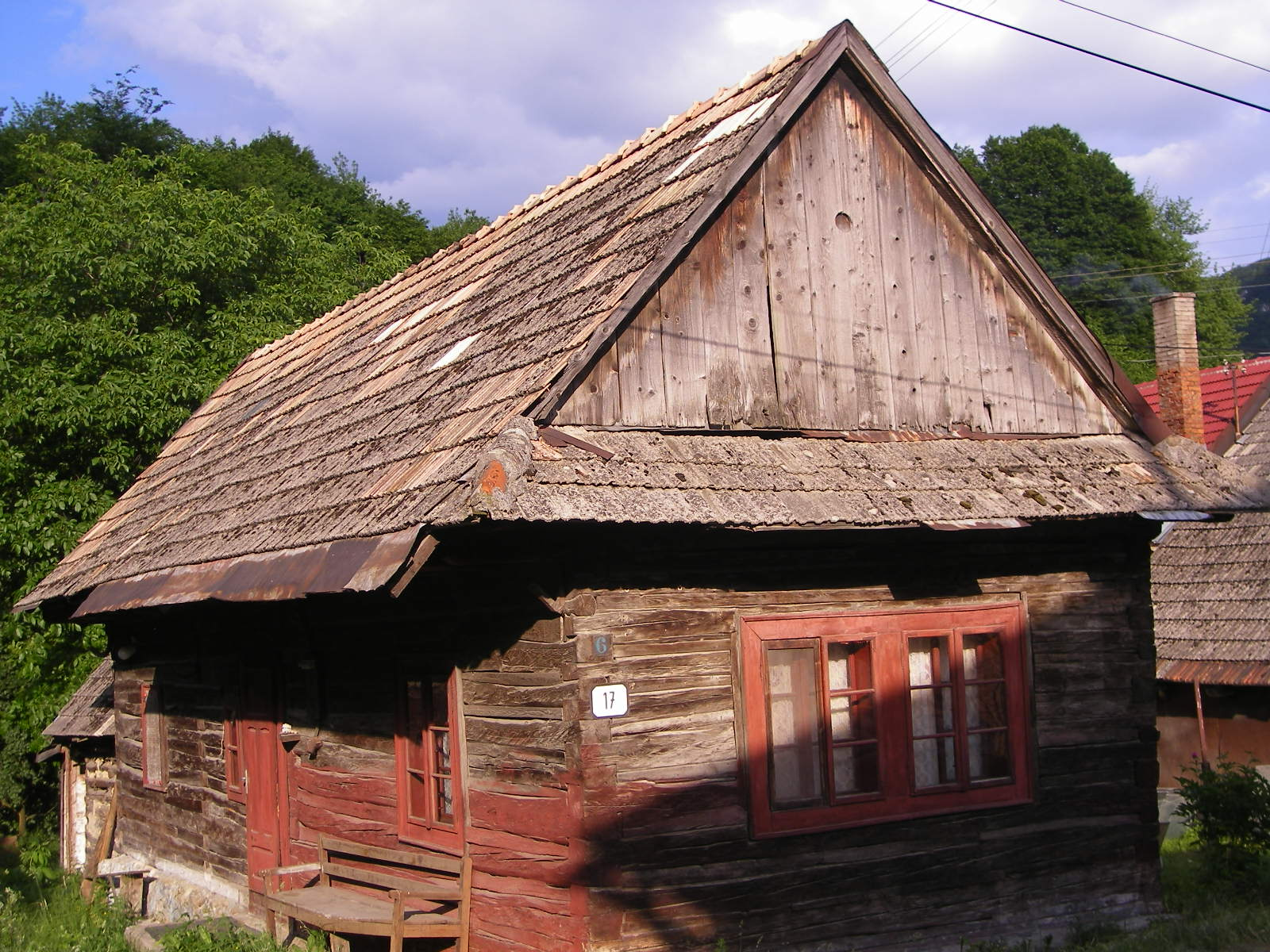 Šútovo - traditional house